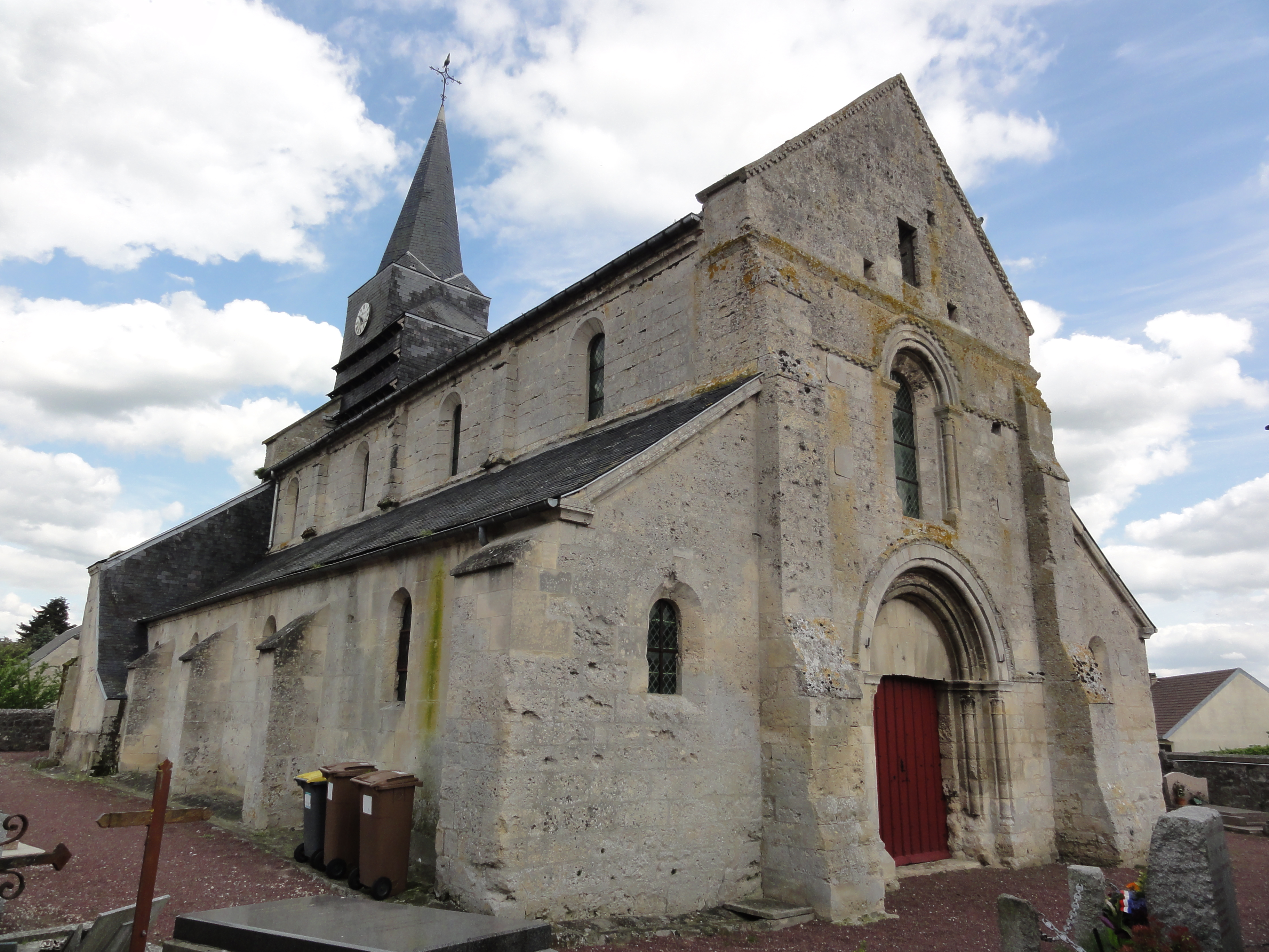 Étouvelles (Aisne) Église Saint-Martin